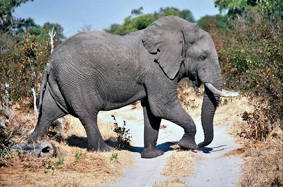 Elephant crossing the road in Moremi Wildlife Reserve, Botswana.